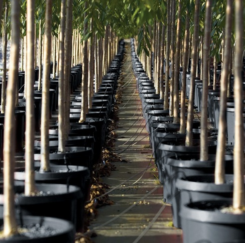 Nursery Center (92509 Riverside, CA, USA, ) has been a family owned and operated business since 1990. Nursery Center started was started by Antonio Nunez as a hobby and a desire to have the freshest and most organic fruits available for his family.